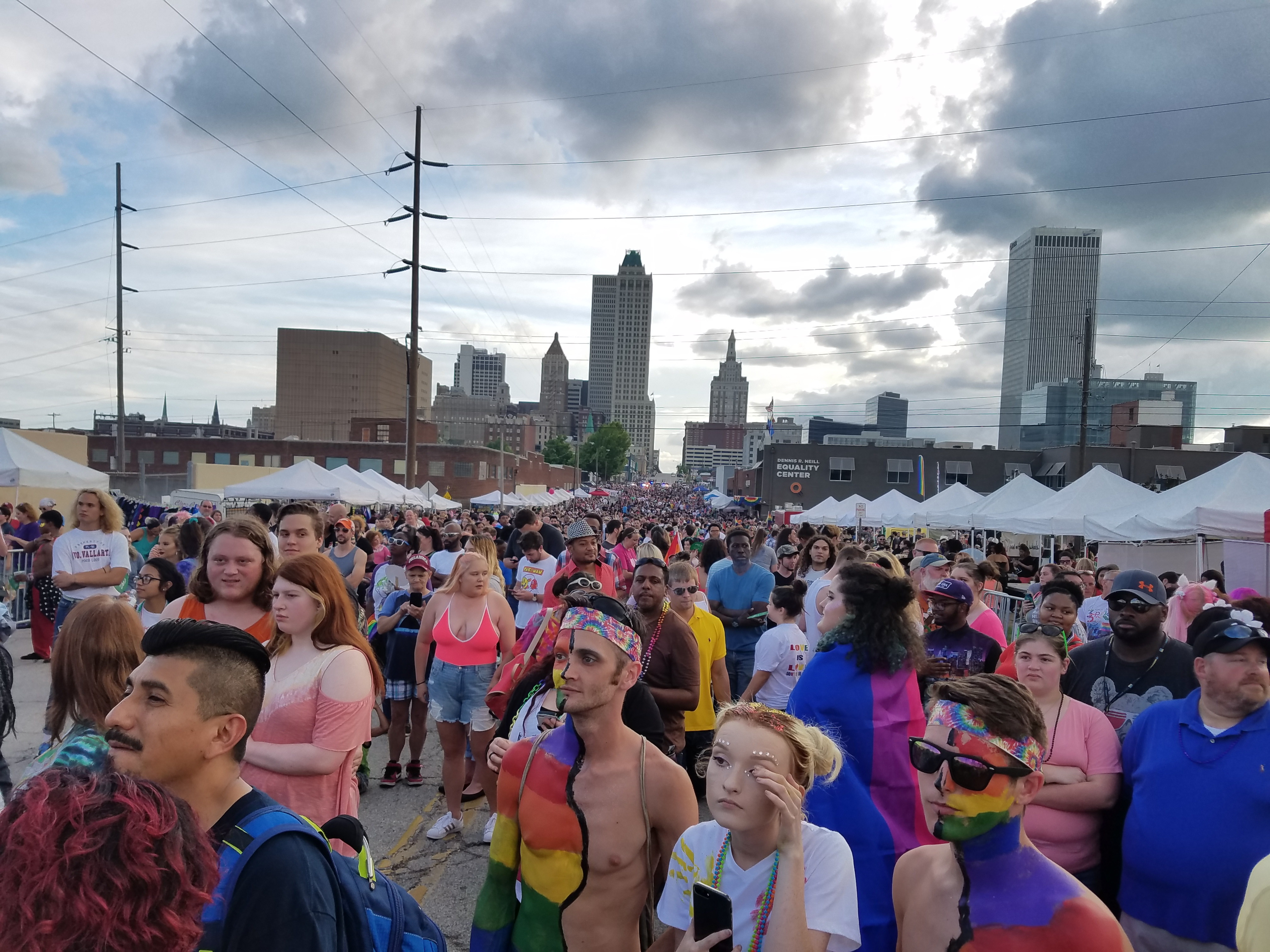 Taken at the terminus of the parade route in downtown Tulsa, OK, 2017.Location: Tulsa, Oklahoma, United StatesEvent type: Pride parade 🙂Date or year: 2017